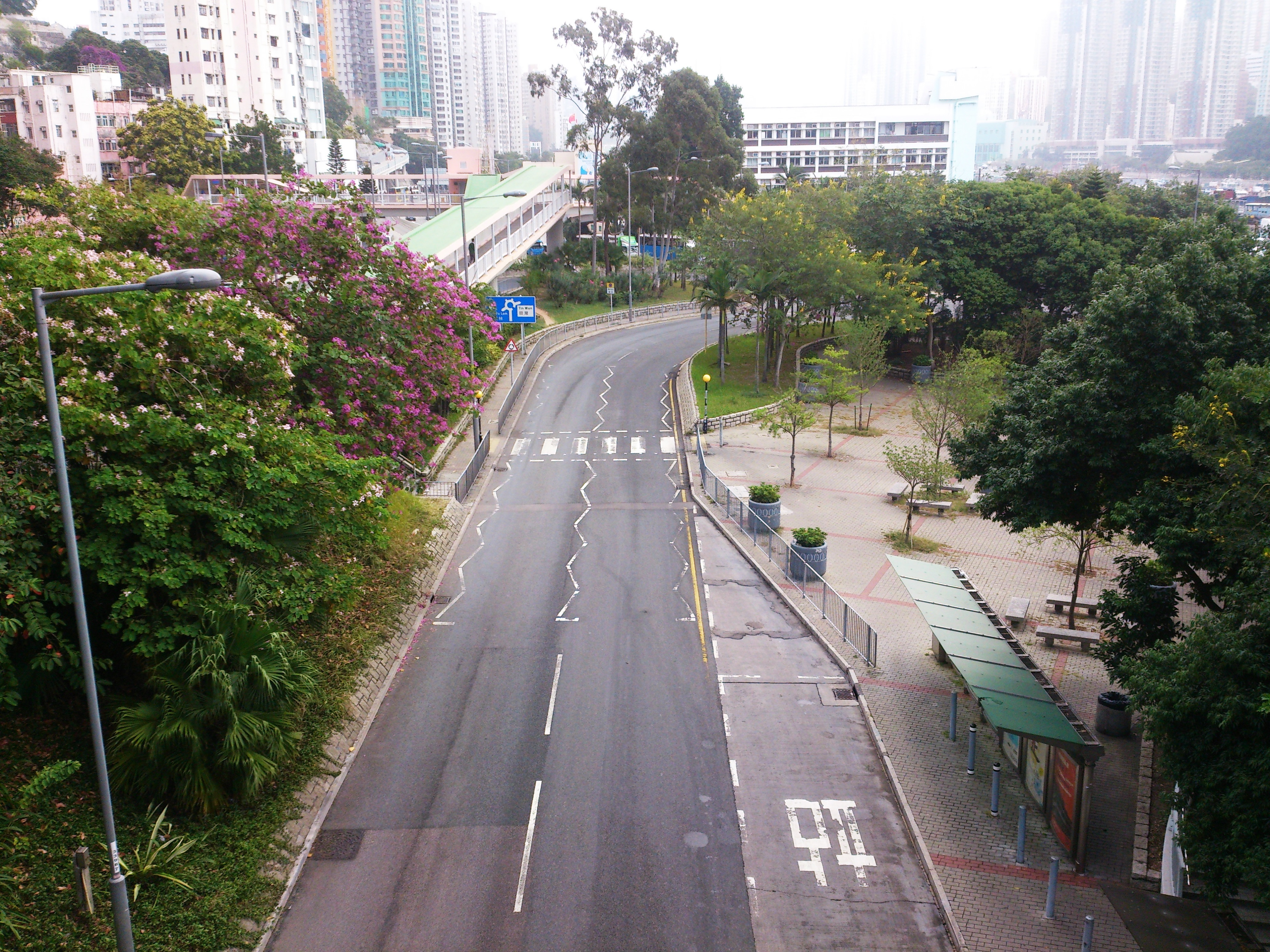 Tin Wan Praya Road towards the roundabout